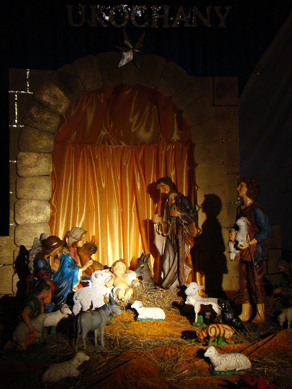 Nativity scenes in Sanok